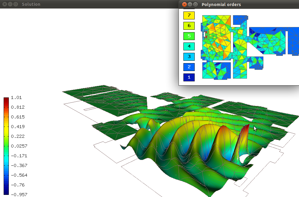 This image is the output from hermes2d/examples/acoustics/apartment. The image is a simulation of harmonic wave propagation in a model of an existing apartment.